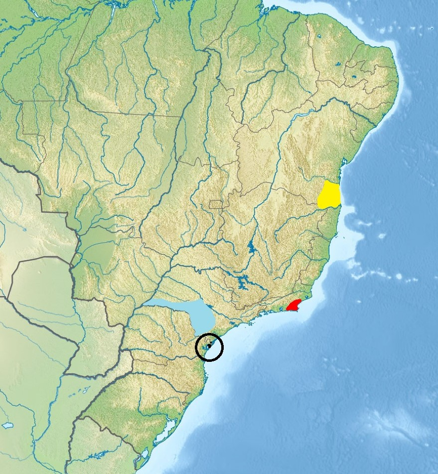 Distribution of Leontopithecus in Brazil